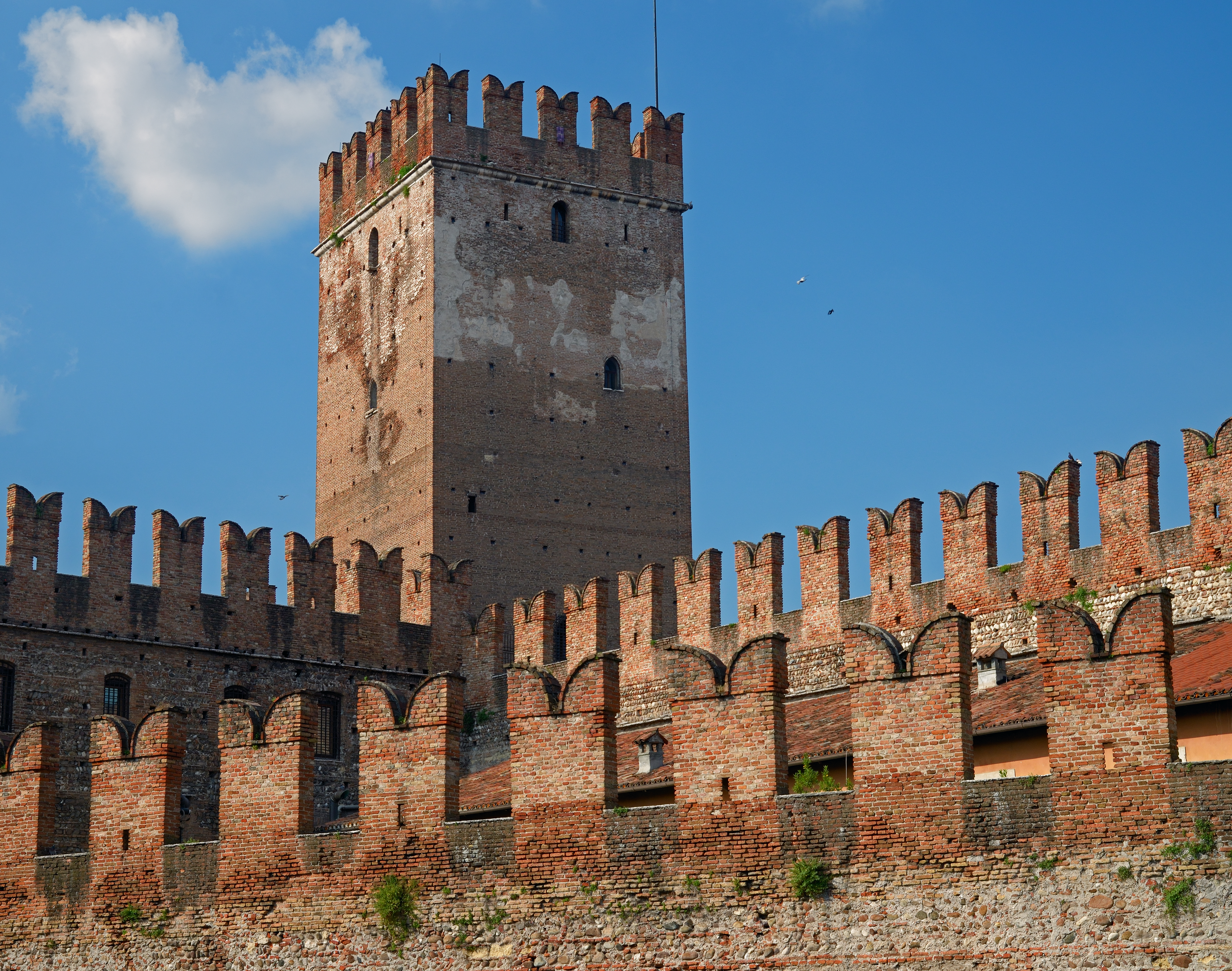 Walls and the tower of Castelvecchio. Verona, Italy